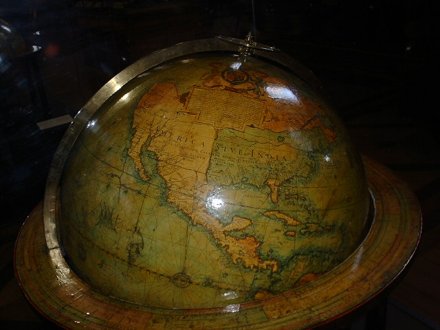 Emery Molyneux's terrestrial globe (1592), temporarily exhibited at the British Museum in London, England, UK. Dedicated to Elizabeth I of England, it was the first terrestrial globe made in England, and was referred to in William Shakespeare's The Comedy of Errors (1592–1594). The globe is in the permanent collection of Middle Temple and is usually displayed in its library.